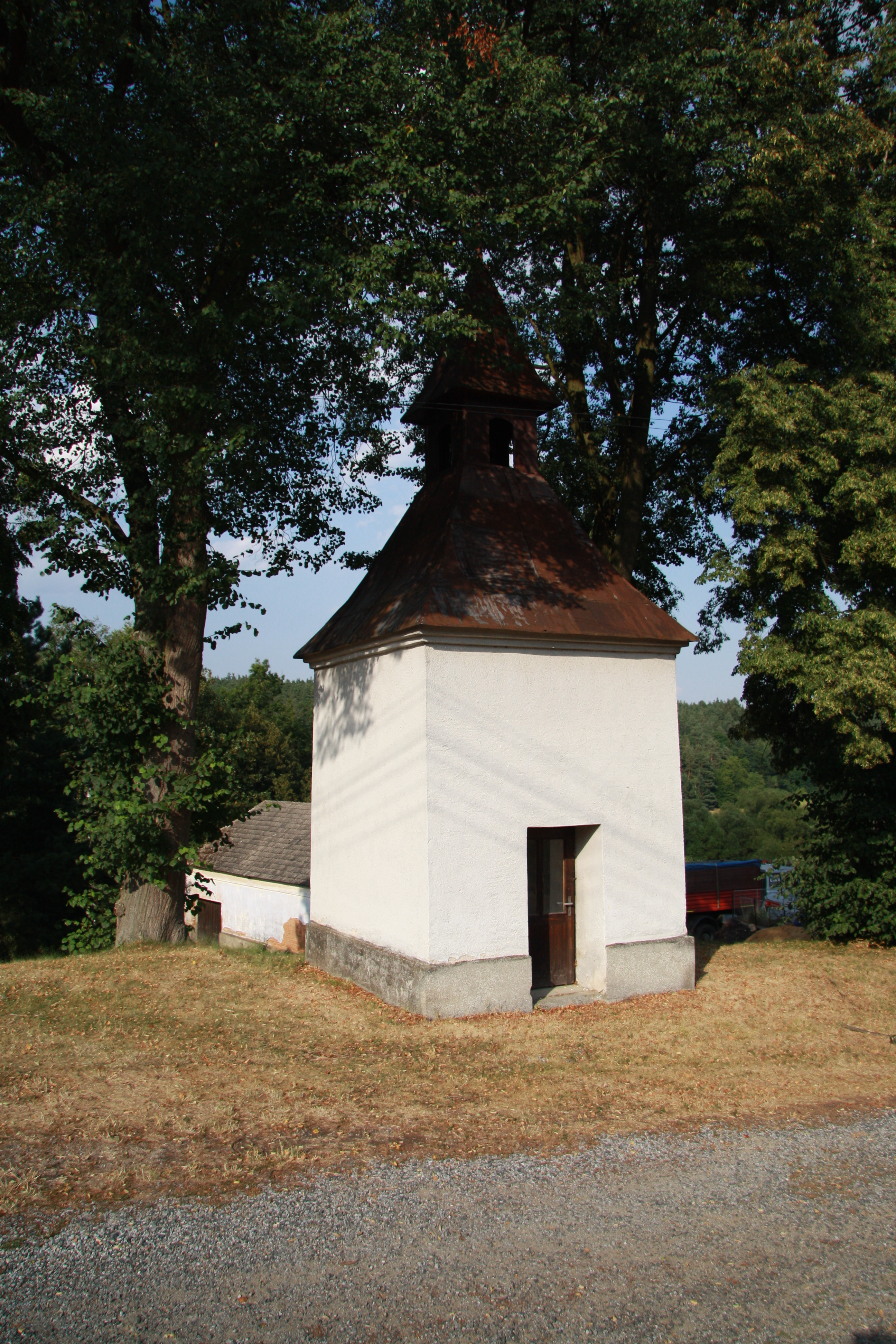 Chapel in Vaneč, Pyšel, Třebíč District.